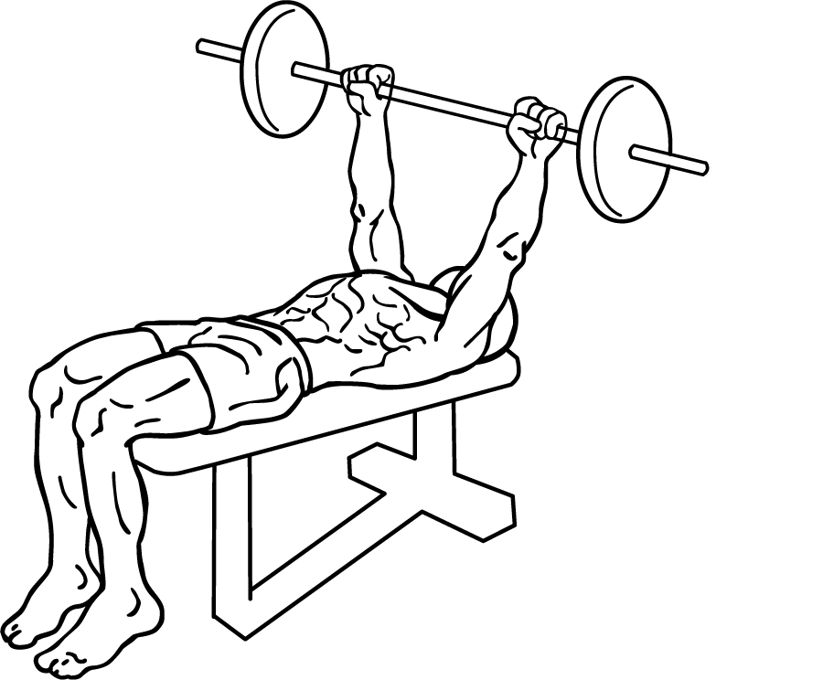 an exercise of upper back